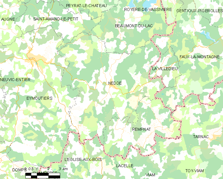 Map of French municipality Nedde